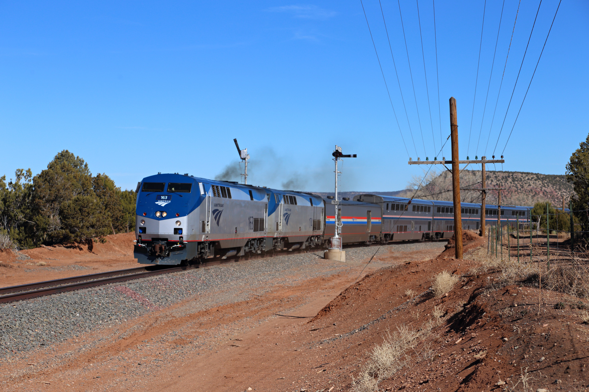 The westbound Southwest Chief splits the semaphores at Bernal, New Mexico in February 2019